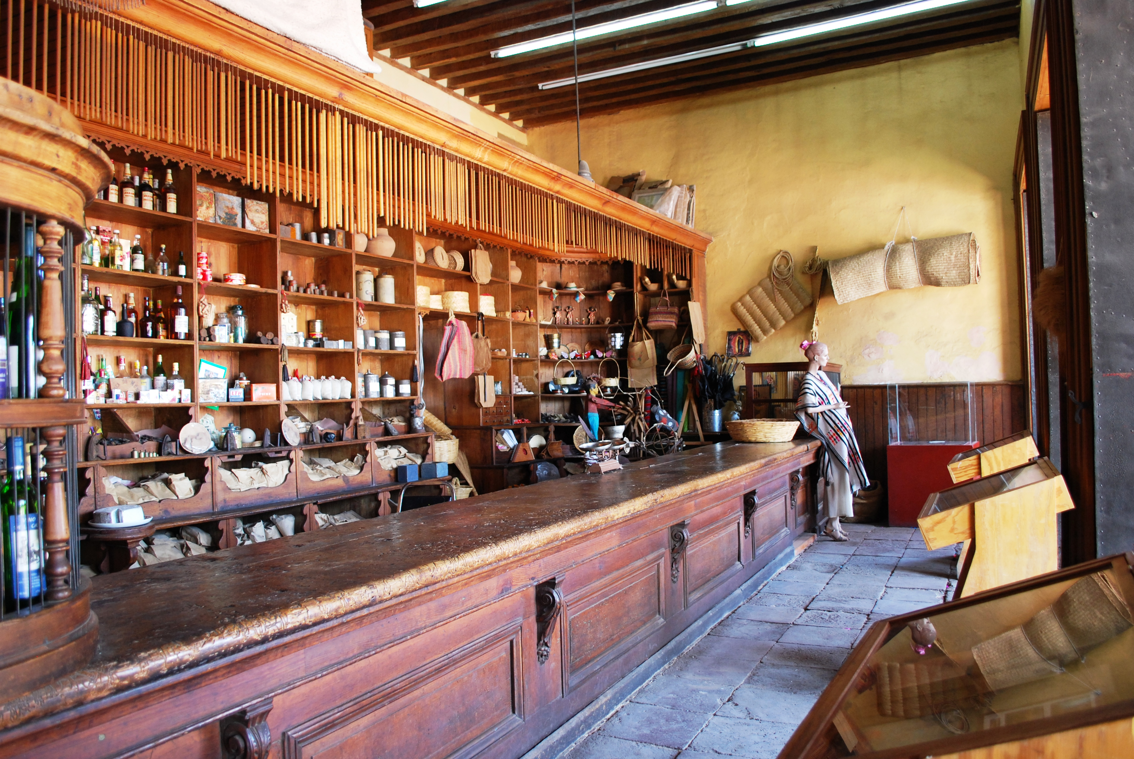 Recreated general store at the Gonzalo Carrasco Museum in Otumba, Mexico State